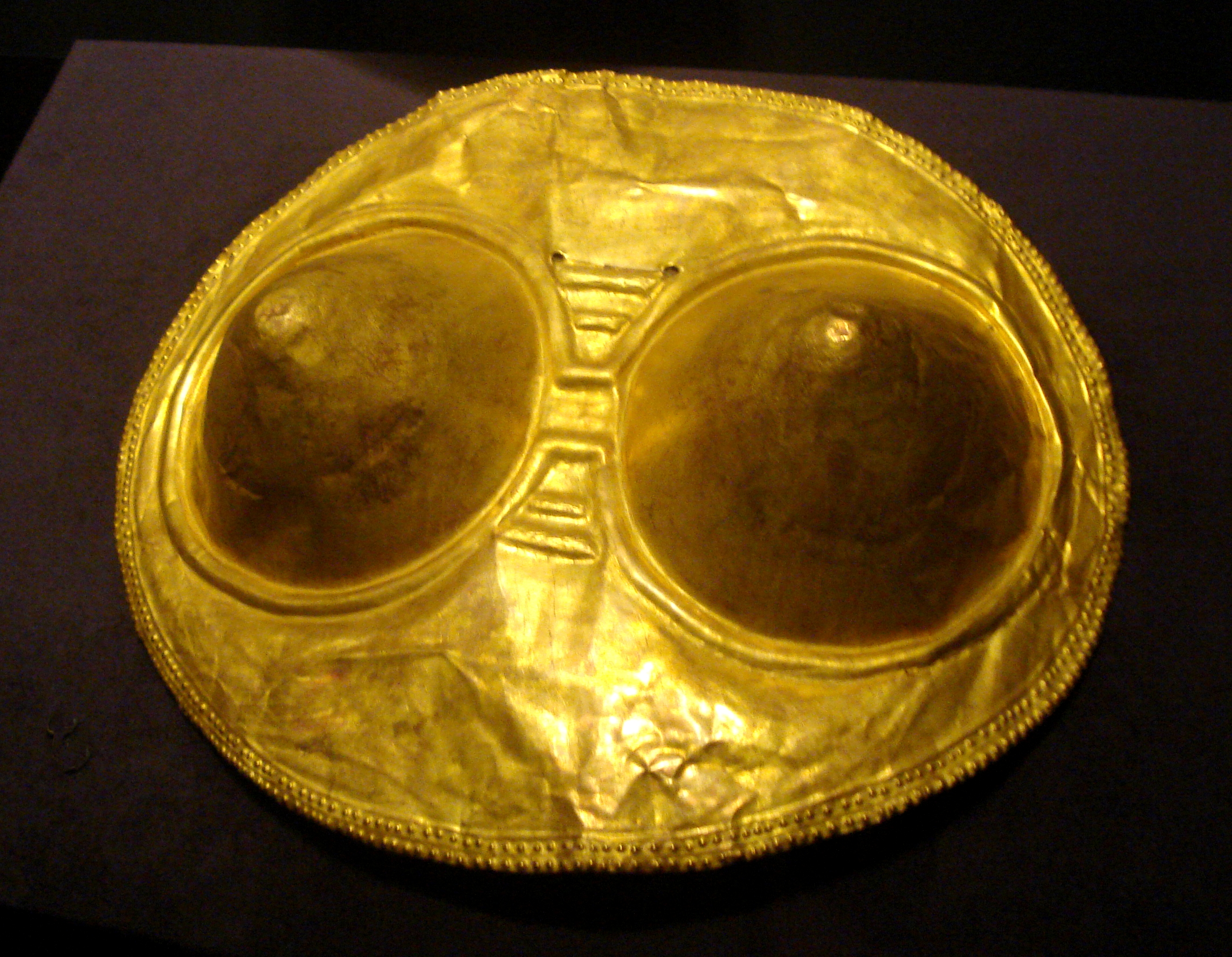 Tumbaga pectoral, Quimbaya culture, 300-1600 AD, Antiquia, Colombia. From the Field Museum